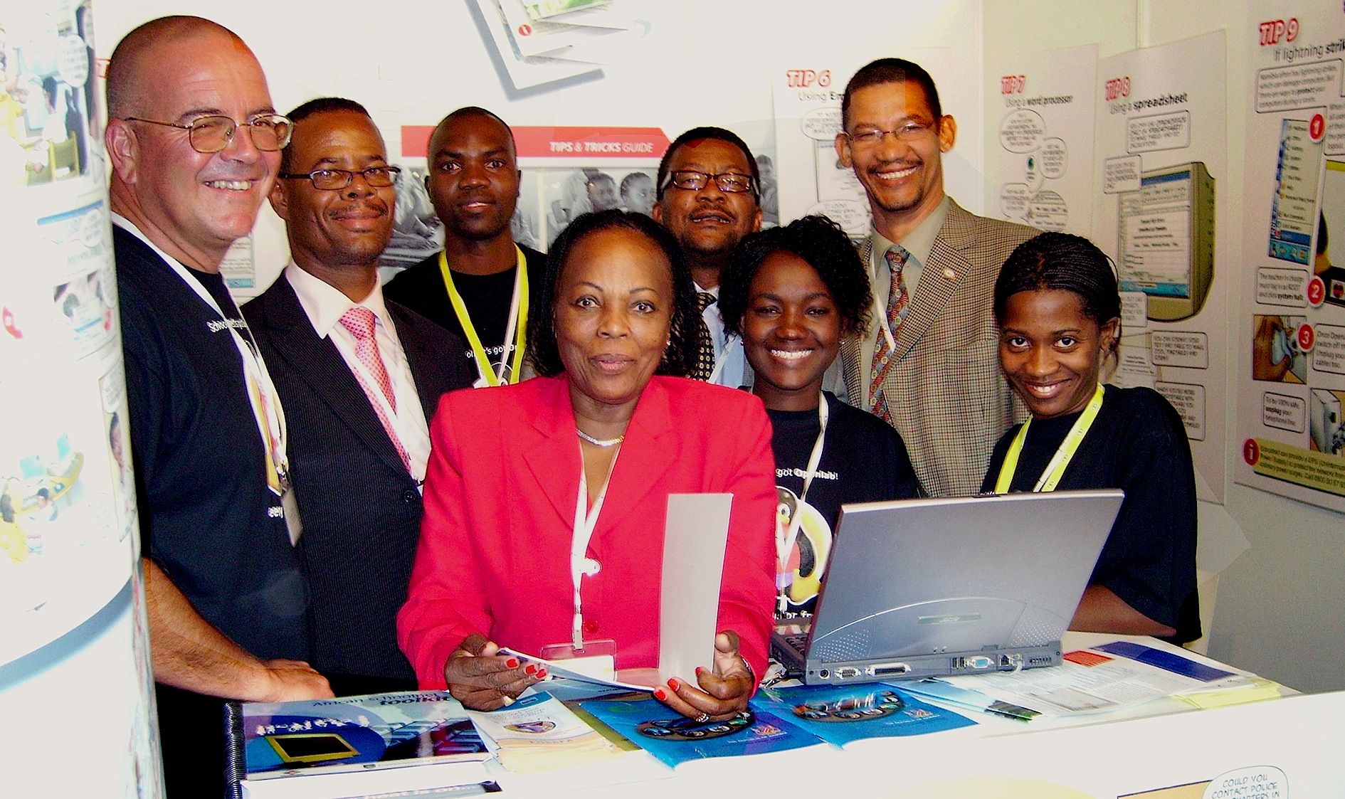 Libertine Appolus Amathila, former Deputy Prime Minister of Namibia with the SchoolNet Namibia team at WSIS in Tunisia.